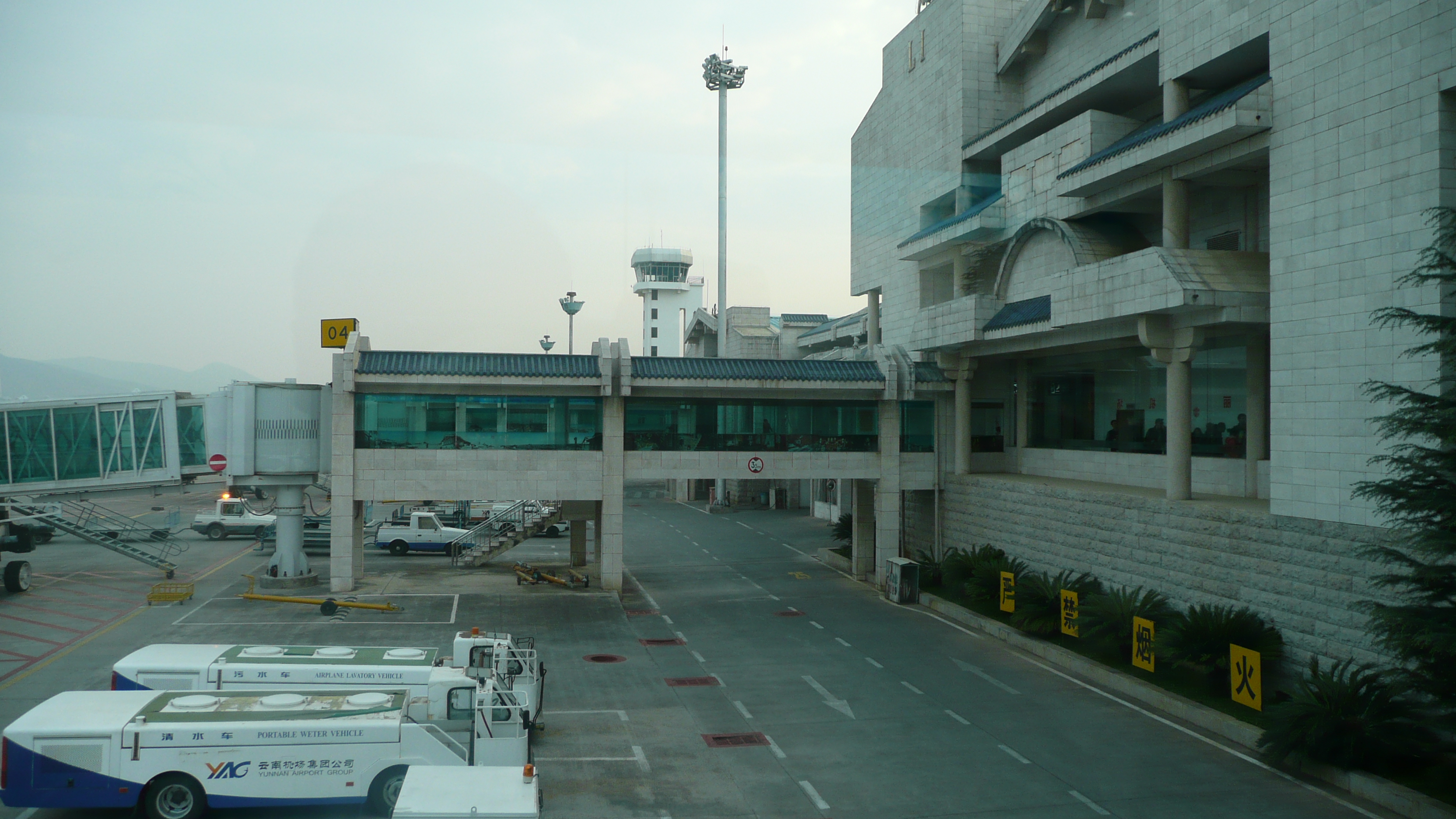 Airport Lijiang (Yunnan)